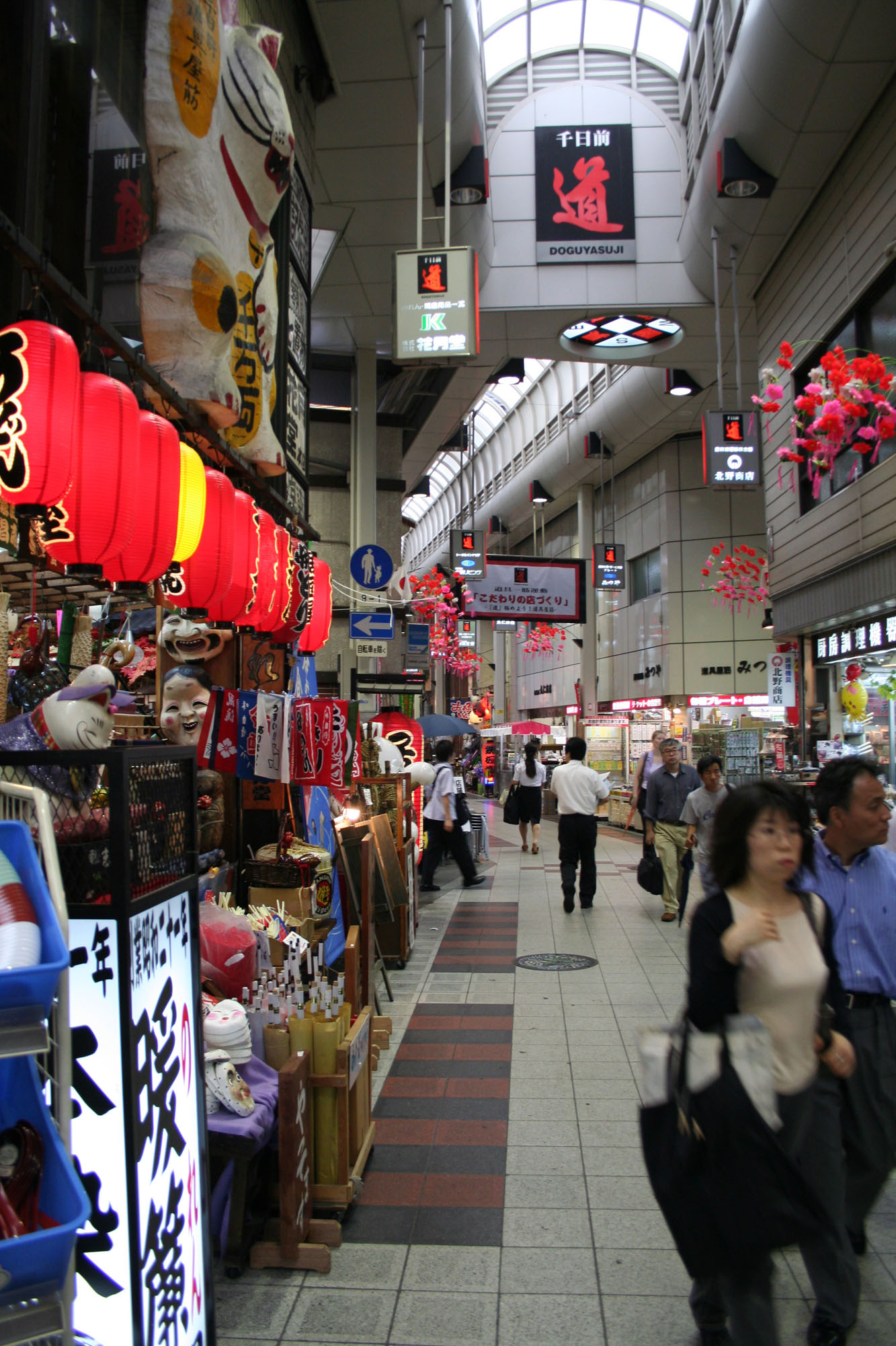 Sennichimae-Dōguyasuji, a shopping arcade in Namba